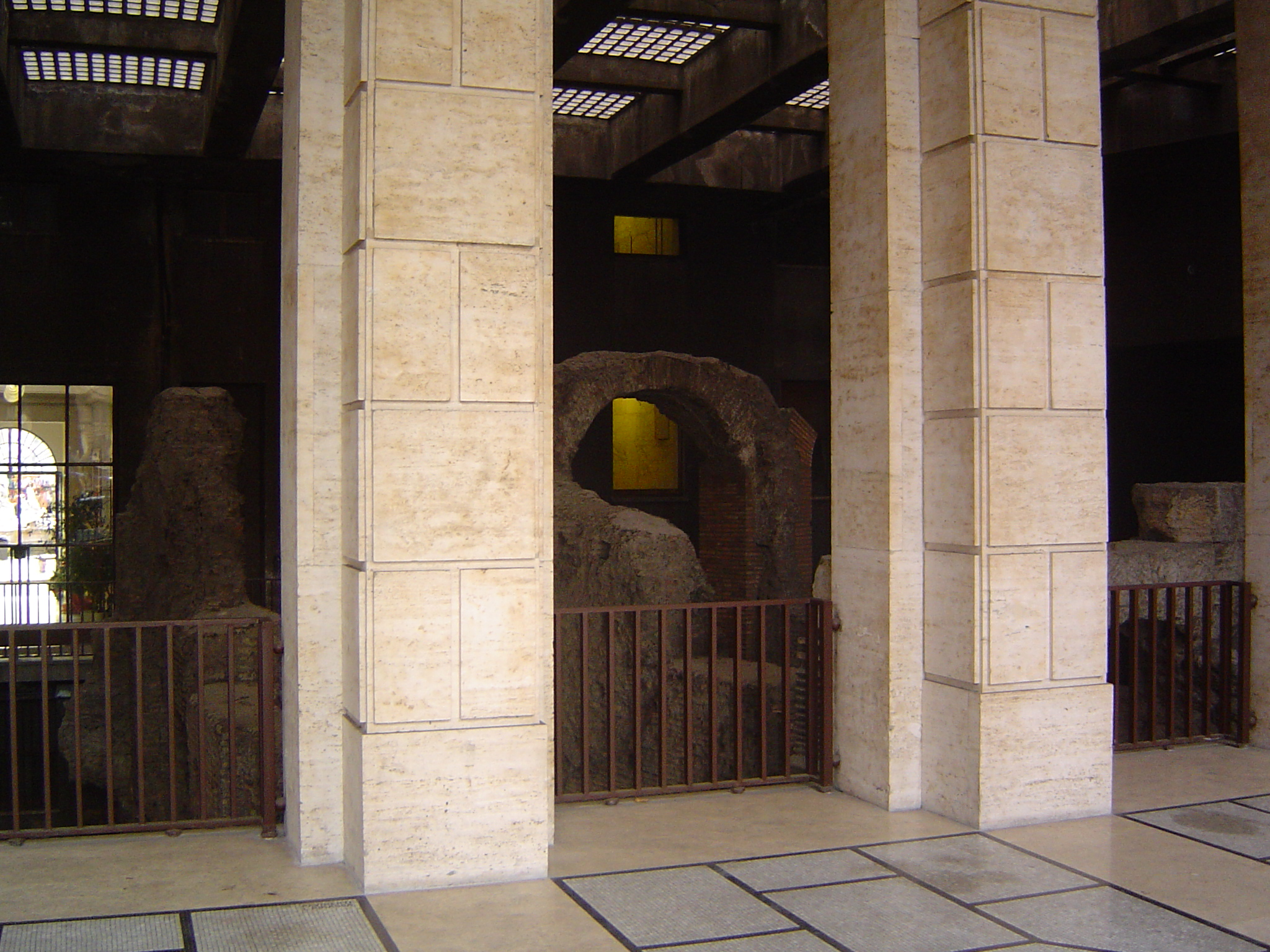 Stadium of Domitian, remains of the arches under the Piazza Navona. Made by Joris on 05-01-2006